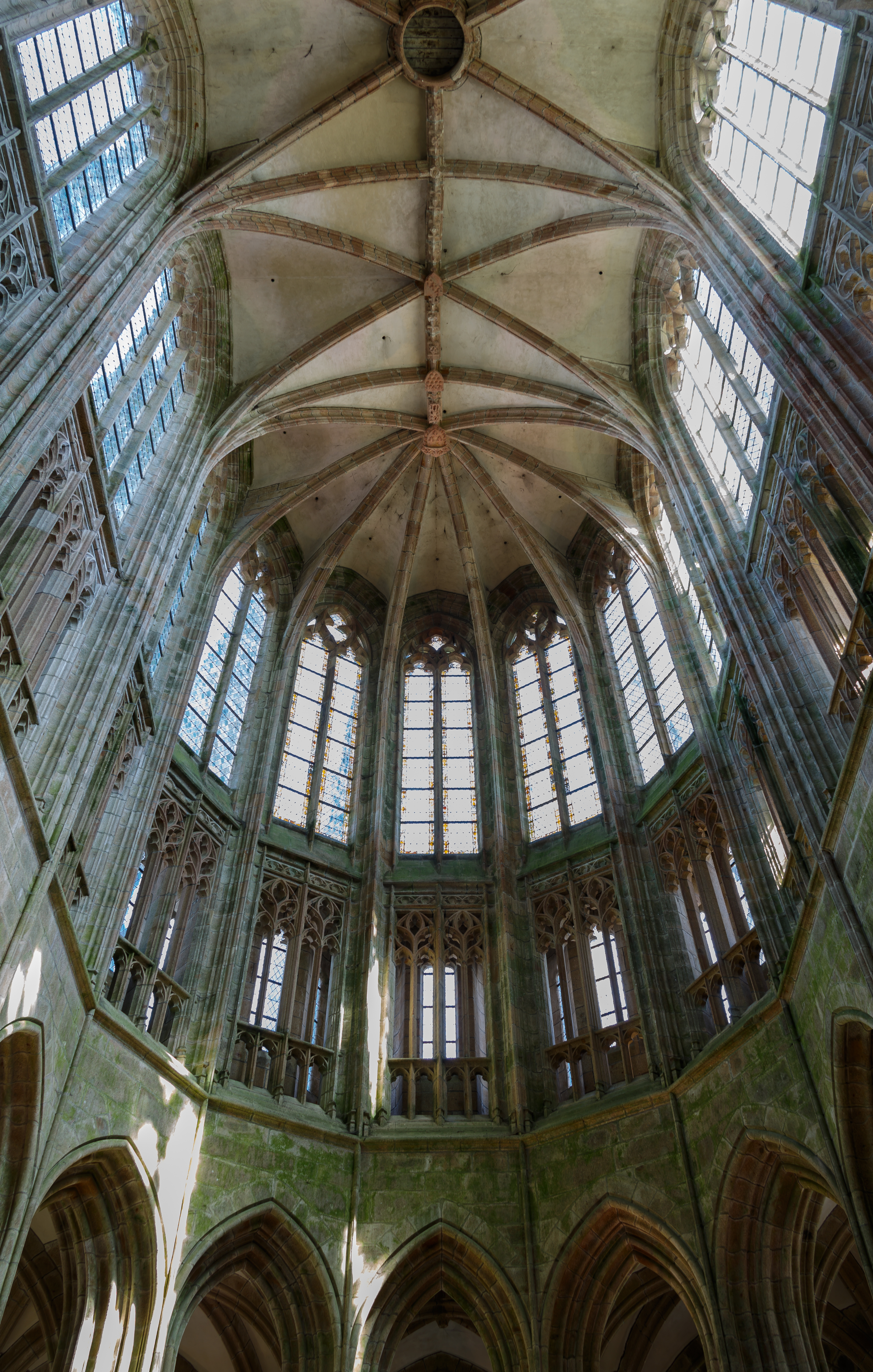 Le Mont-Saint-Michel, France: Ceiling of the Abbey Church